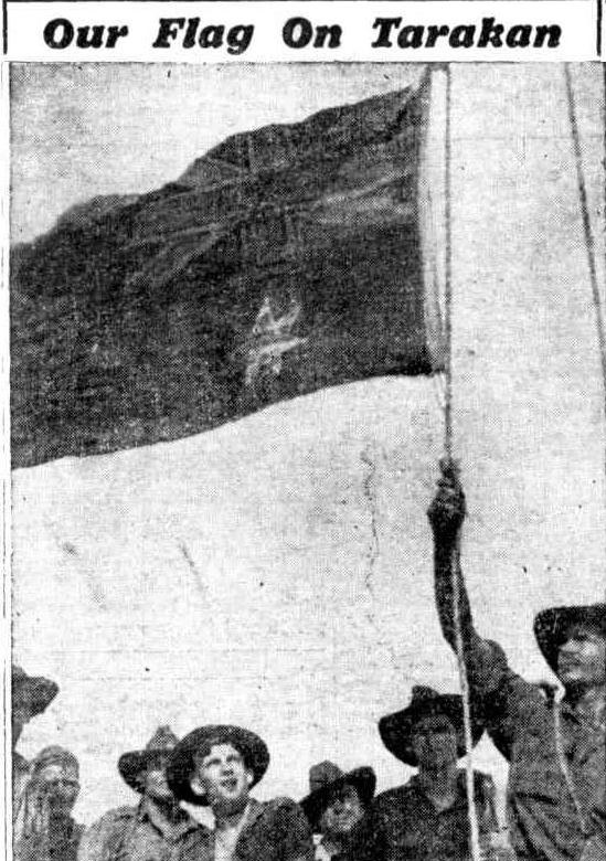 During the invasion of Tarakan a photograph of Lieutenant K. McKitrick raising the Australian flag on Sadau Island appeared on the front page of Perth's Sunday Times, 20 May 1945 edition, under the headline "OUR FLAG ON TARAKAN" as he was being watched by the men of 2/4 commando squadron shortly after landing with the caption reading: "A.I.F. VETERANS of the 9th Division fly an Australian flag on Tarakan Island (Borneo) on which, today's cables say, they have achieved their objectives."